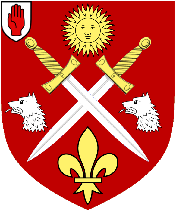 Shield of arms of the Robertson baronets of Beaconsfield